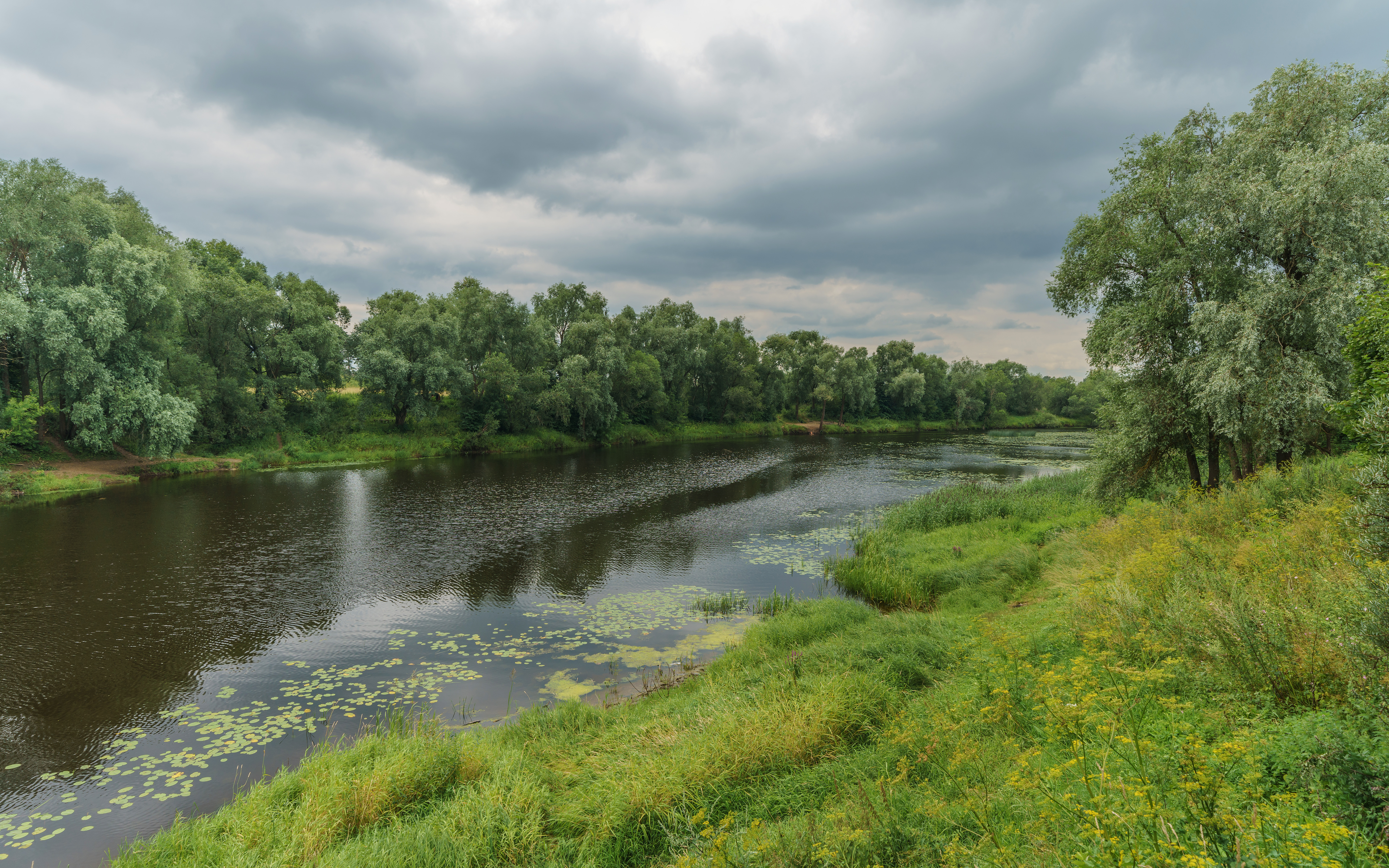 Shelon River in Porkhov, Pskov Oblast, Russia.